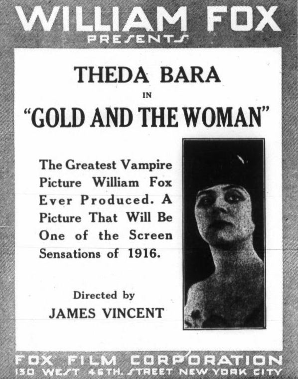 Advertisement for the American drama film Gold and the Woman (1916) with Theda Bara, on page 29 of the March 10, 1916 Variety.